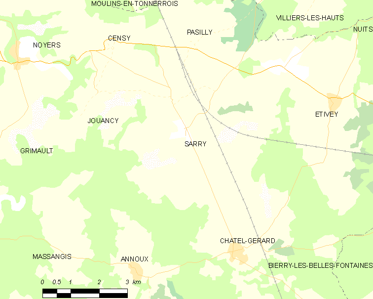 Map of French municipality Sarry